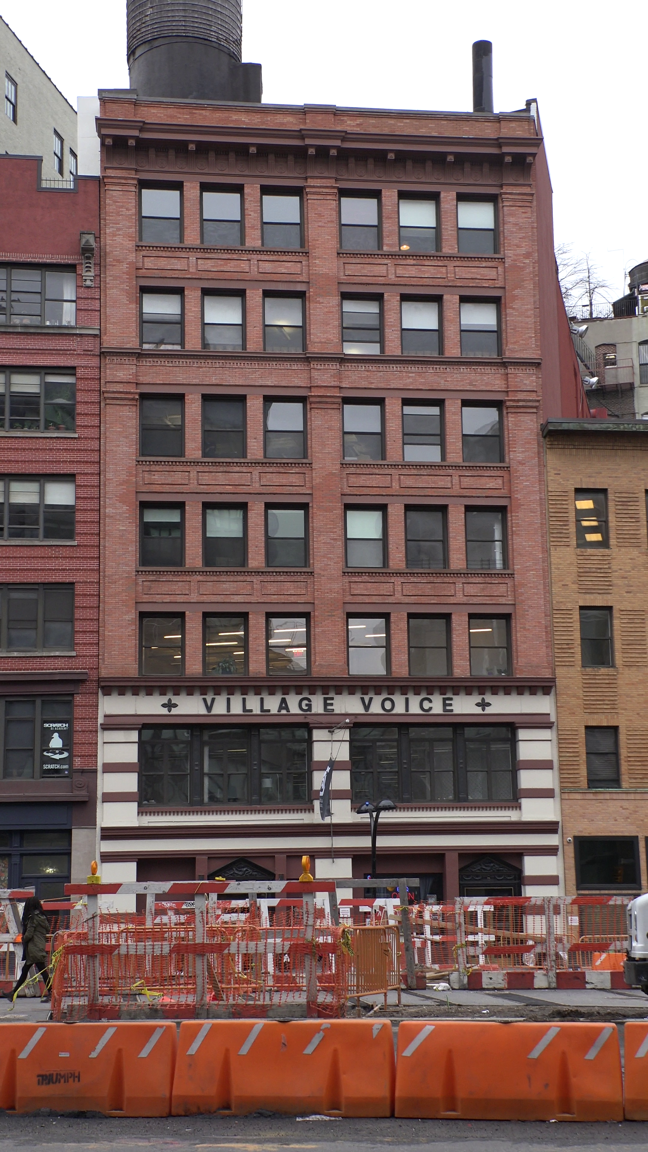 Village Voice building in New York City